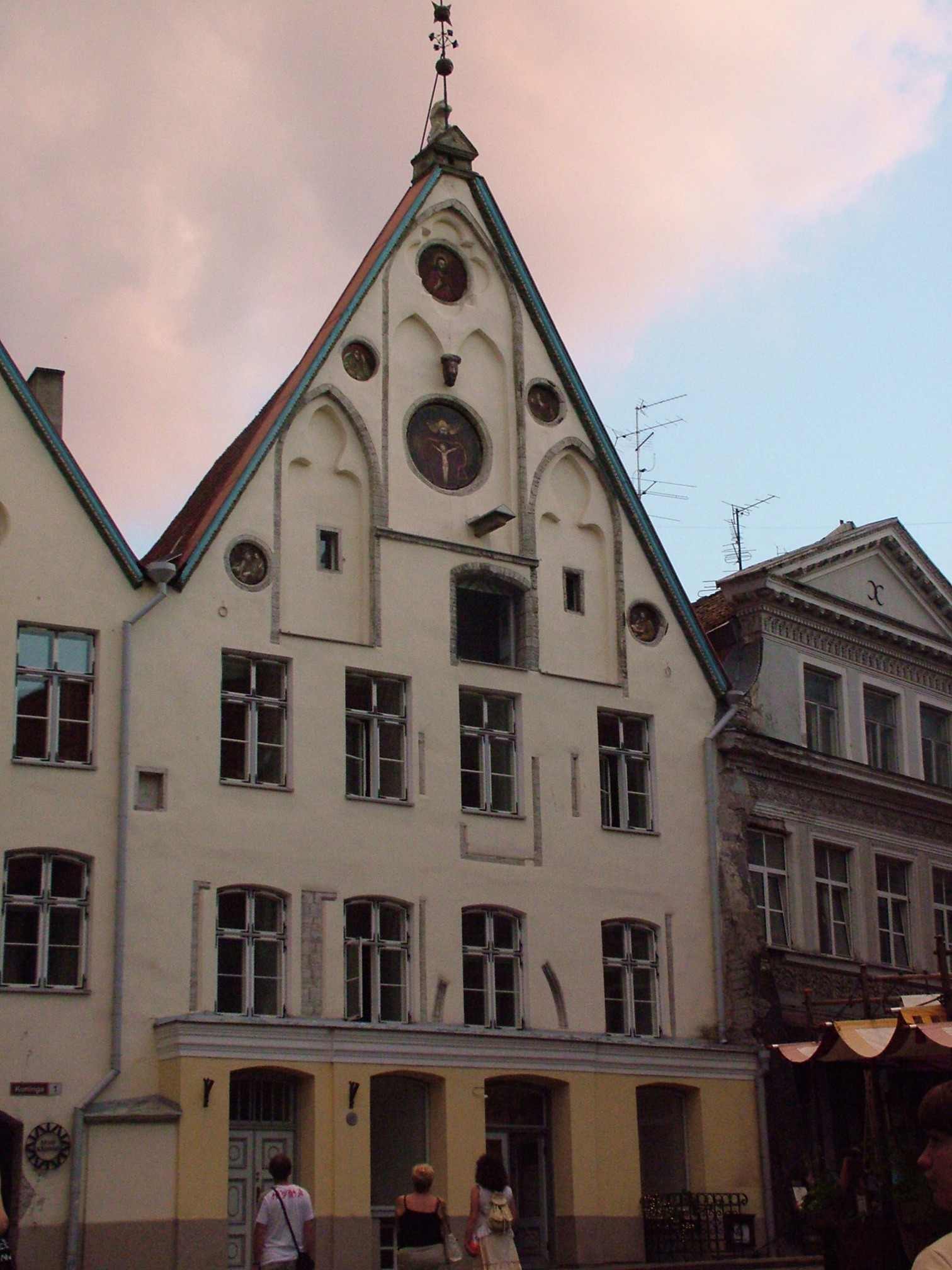 Old garner near Town Hall Sqare in Tallinn, Estonia